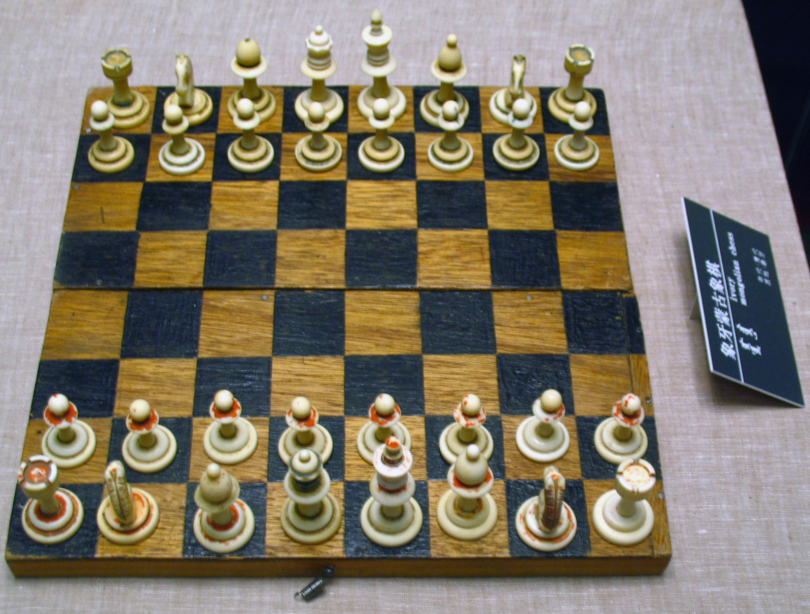 Ivory Mongol Shatar displayed in Hulun Buir National Museum